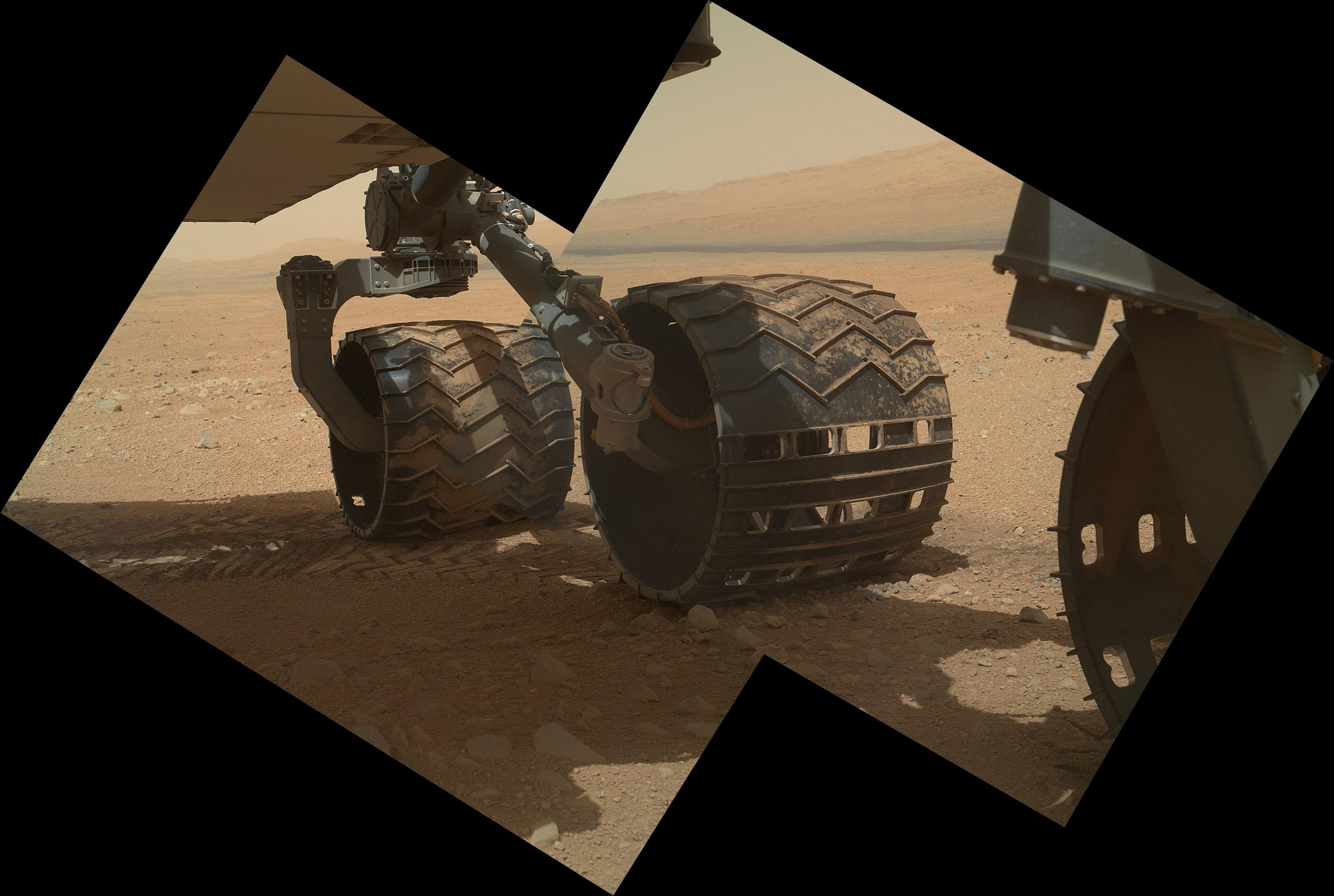 09.10.2012 Wheels and a Destination This view of the three left wheels of NASA's Mars rover Curiosity combines two images that were taken by the rover's ) during the 34th Martian day, or sol, of Curiosity's work on Mars (Sept. 9, 2012). In the distance is the lower slope of Mount Sharp. The camera is located in the turret of tools at the end of Curiosity's robotic arm. The Sol 34 imaging by MAHLI was part of a week-long set of activities for characterizing the movement of the arm in Mars conditions. The main purpose of Curiosity's MAHLI camera is to acquire close-up, high-resolution views of rocks and soil at the rover's Gale Crater field site. The camera is capable of focusing on any target at distances of about 0.8 inch (2.1 centimeters) to infinity, providing versatility for other uses, such as views of the rover itself from different angles.